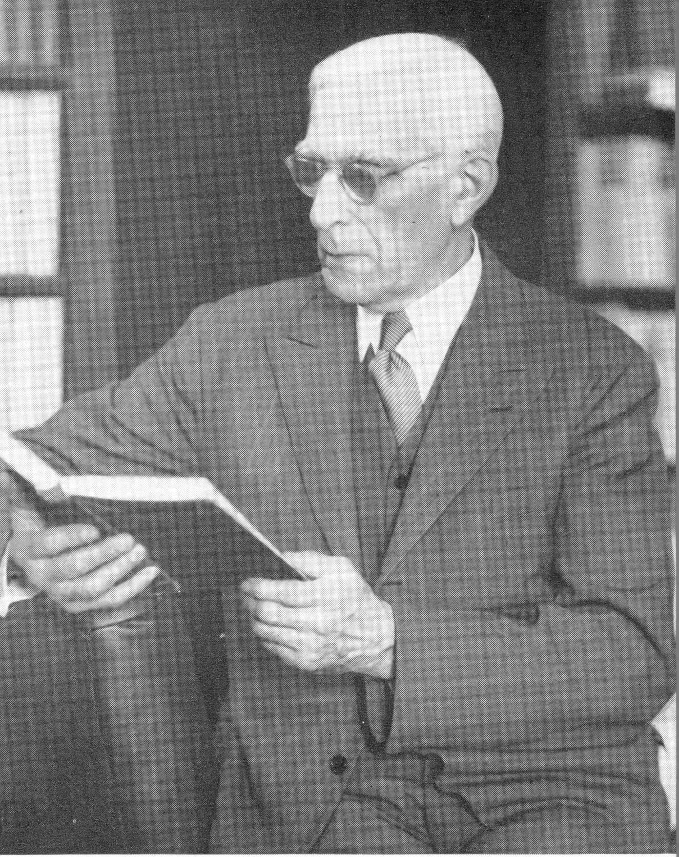 Mr. Justice A. K. Dysart. Appointed to Manitoba Court of Appeal in 1947. Served as Chairman of the Board of the University of Manitoba (1934), and Chancellor from 1944 to 1952.